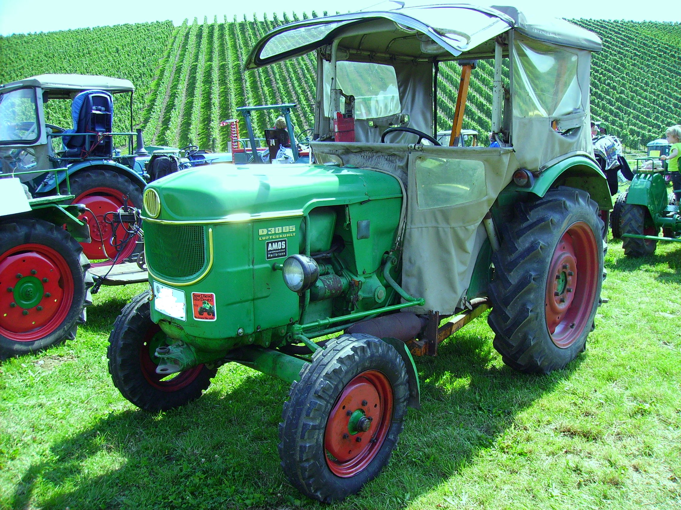 Deutz D3005